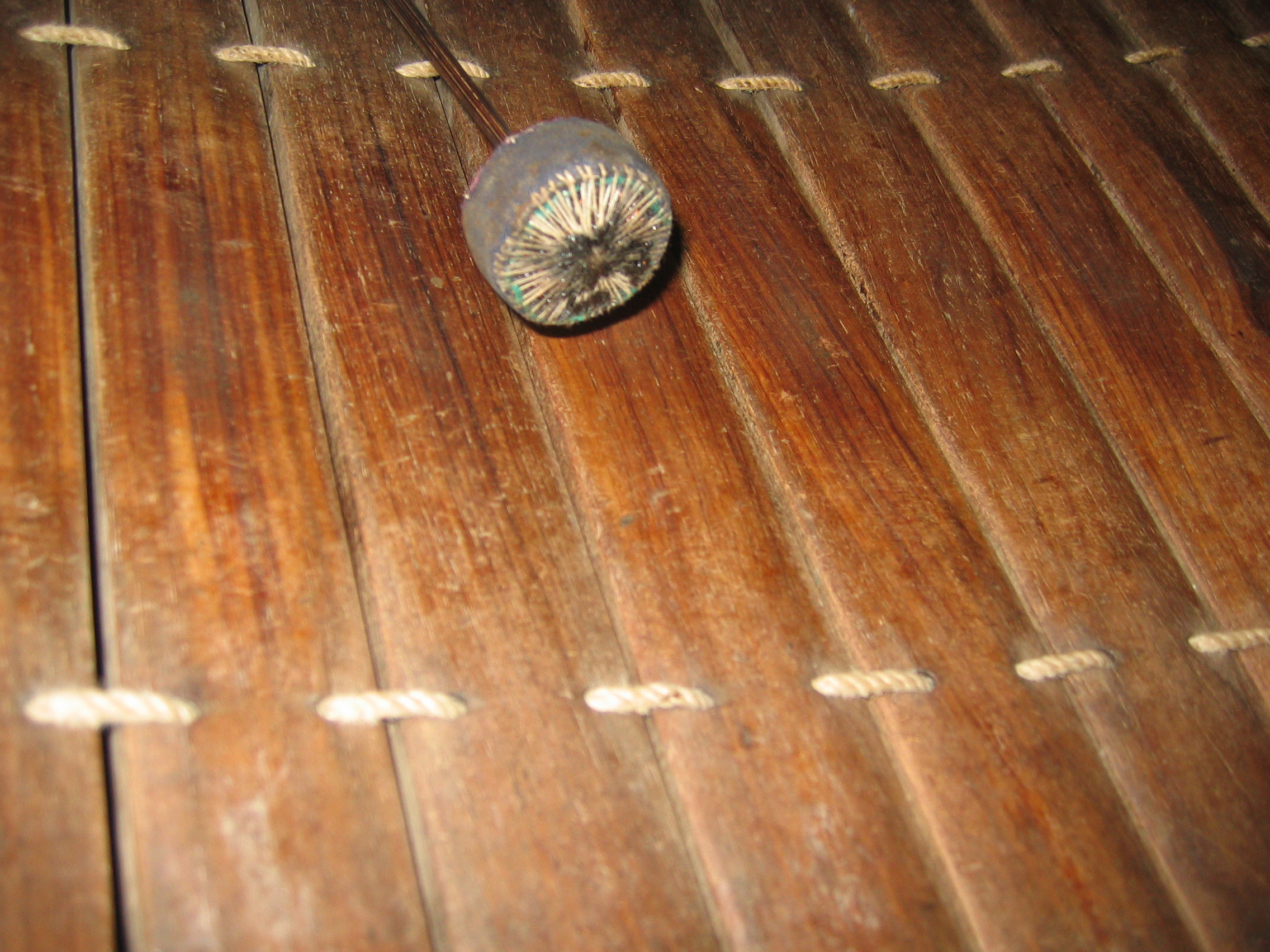 Close-up of the roneat. Photo Frederick Noronha